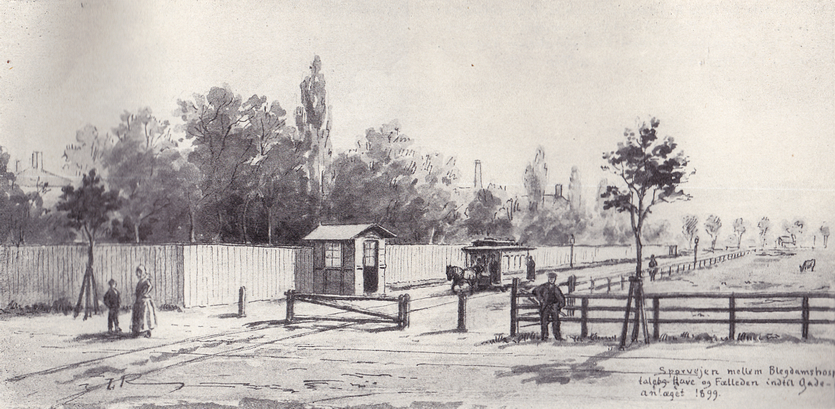 Tagensvej at Blegdamsvej in Copenhagen, Denmark